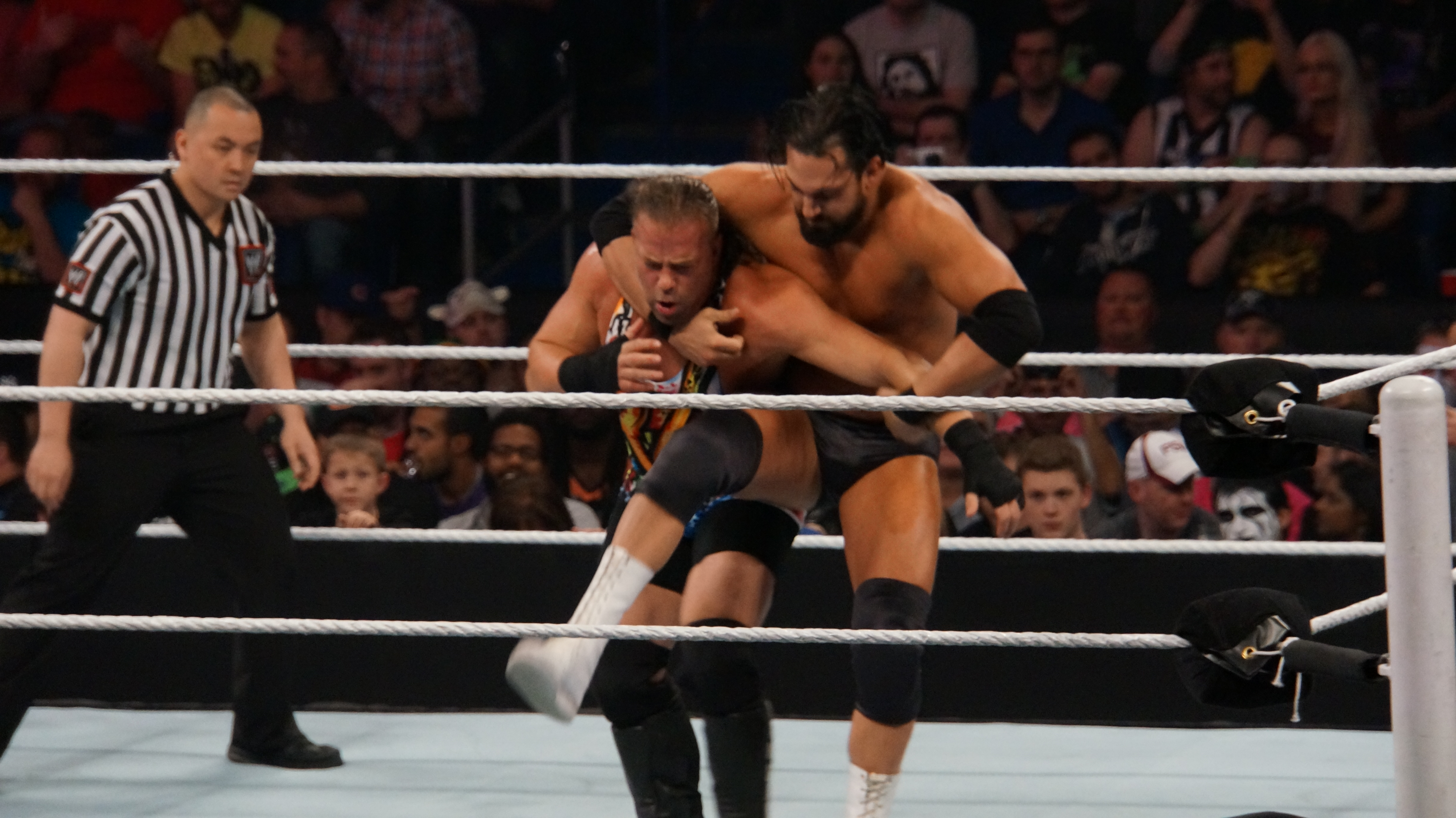 Damian Sandow (with beard) preparing to do a Russian Legsweep against Rob Van Damn